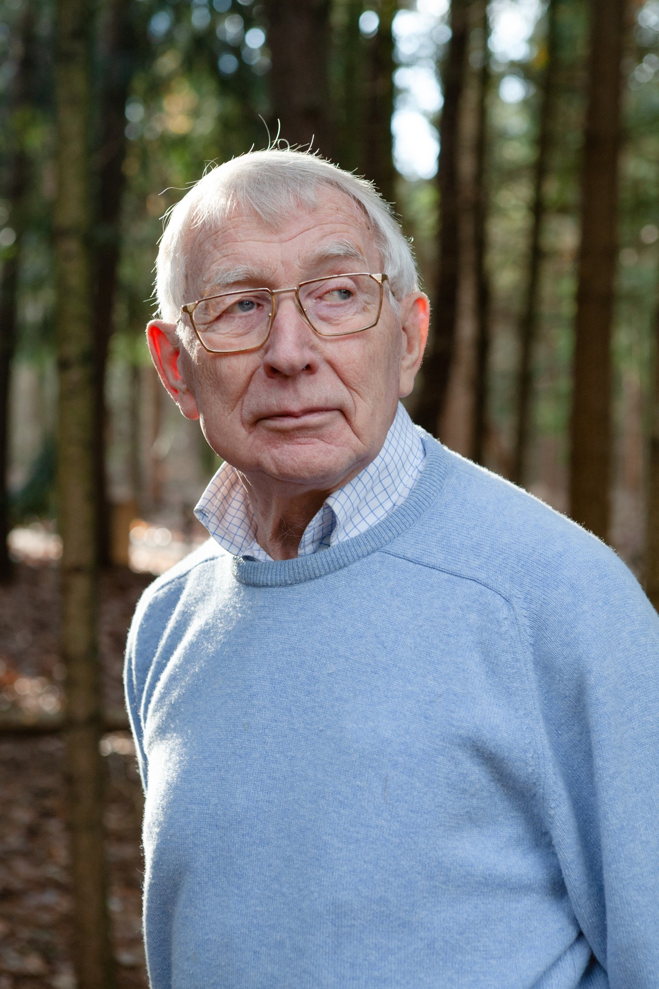 Lou Ottens in his garden in 2007, during an interview for 'De Ingenieur', the periodical of the Dutch Royal Institute of Engineers